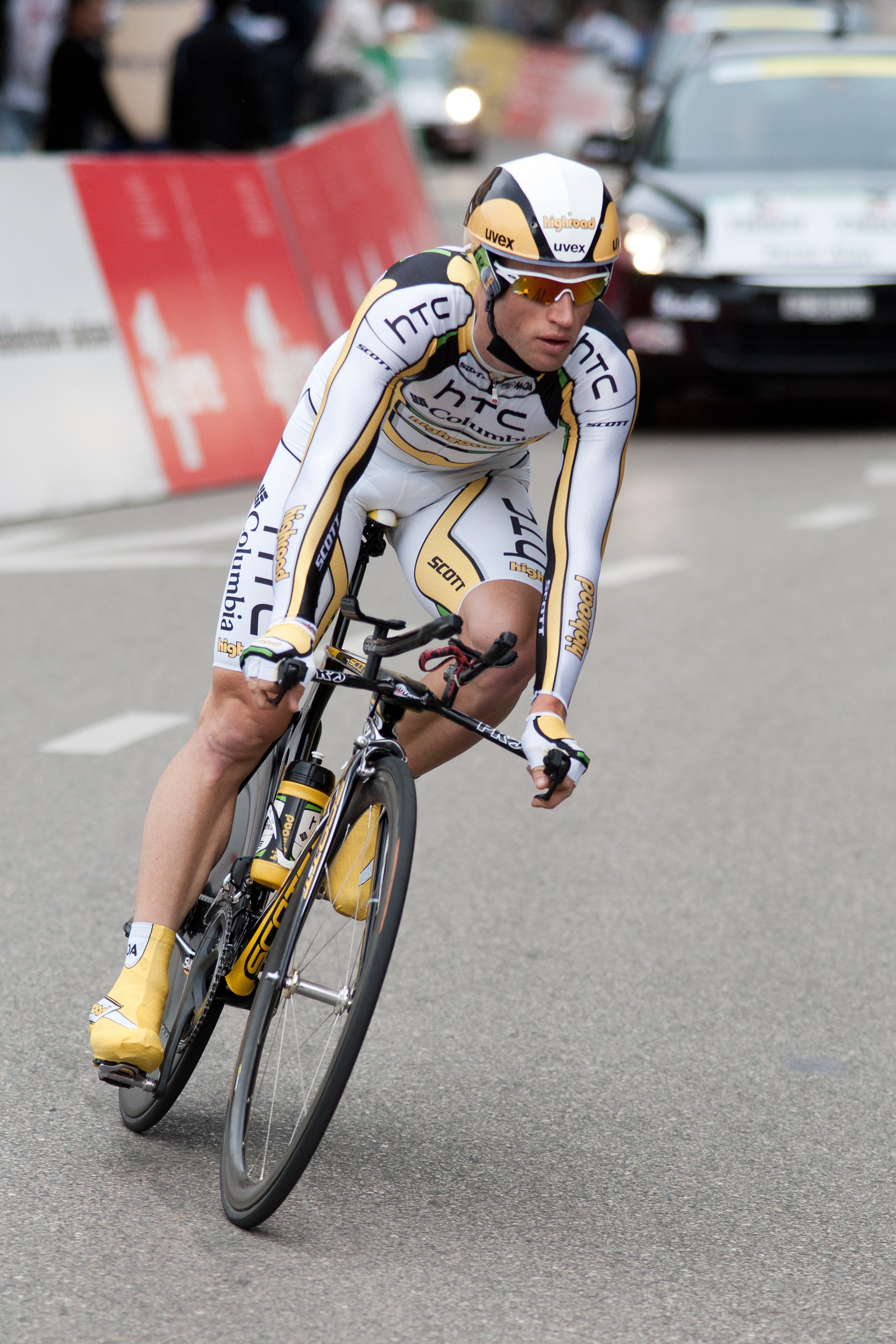 Mark Renshaw during the 3rd stage of the Tour de Romandie 2010.